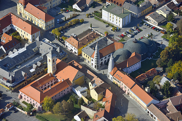 Szigetvár központja - légi fotó